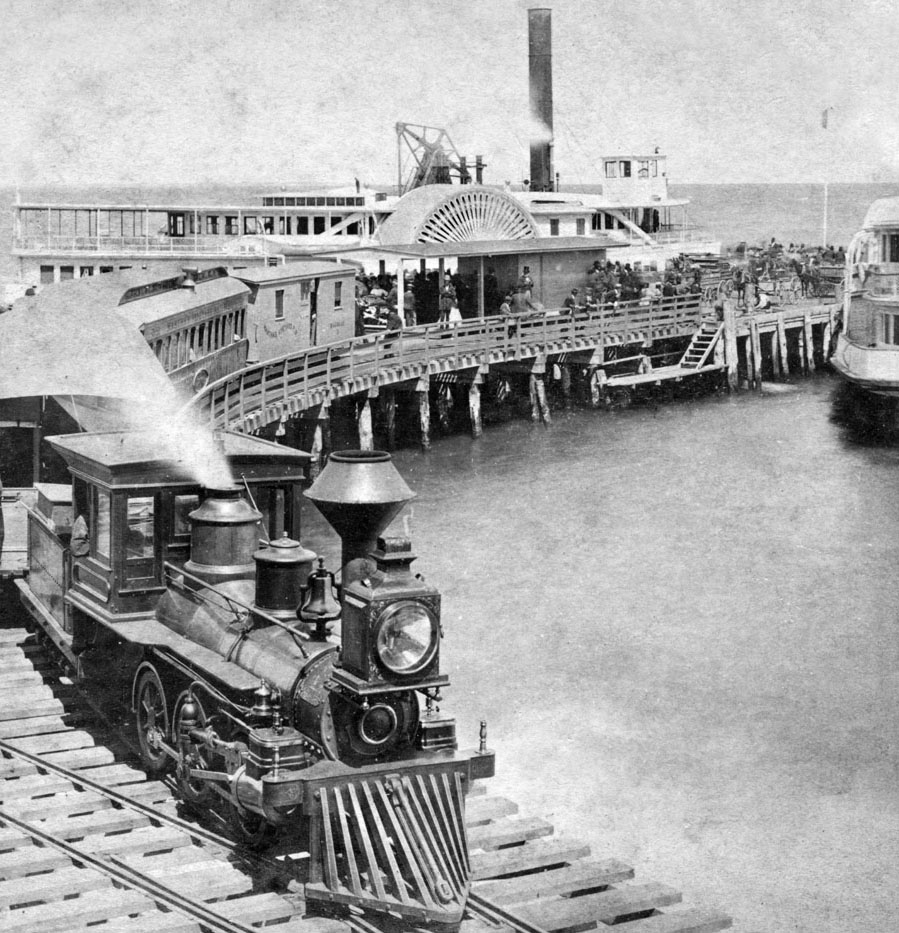 The train Active leaving Oak Bluffs wharf for Edgartown. From a stereoview. Scan courtesy [1]